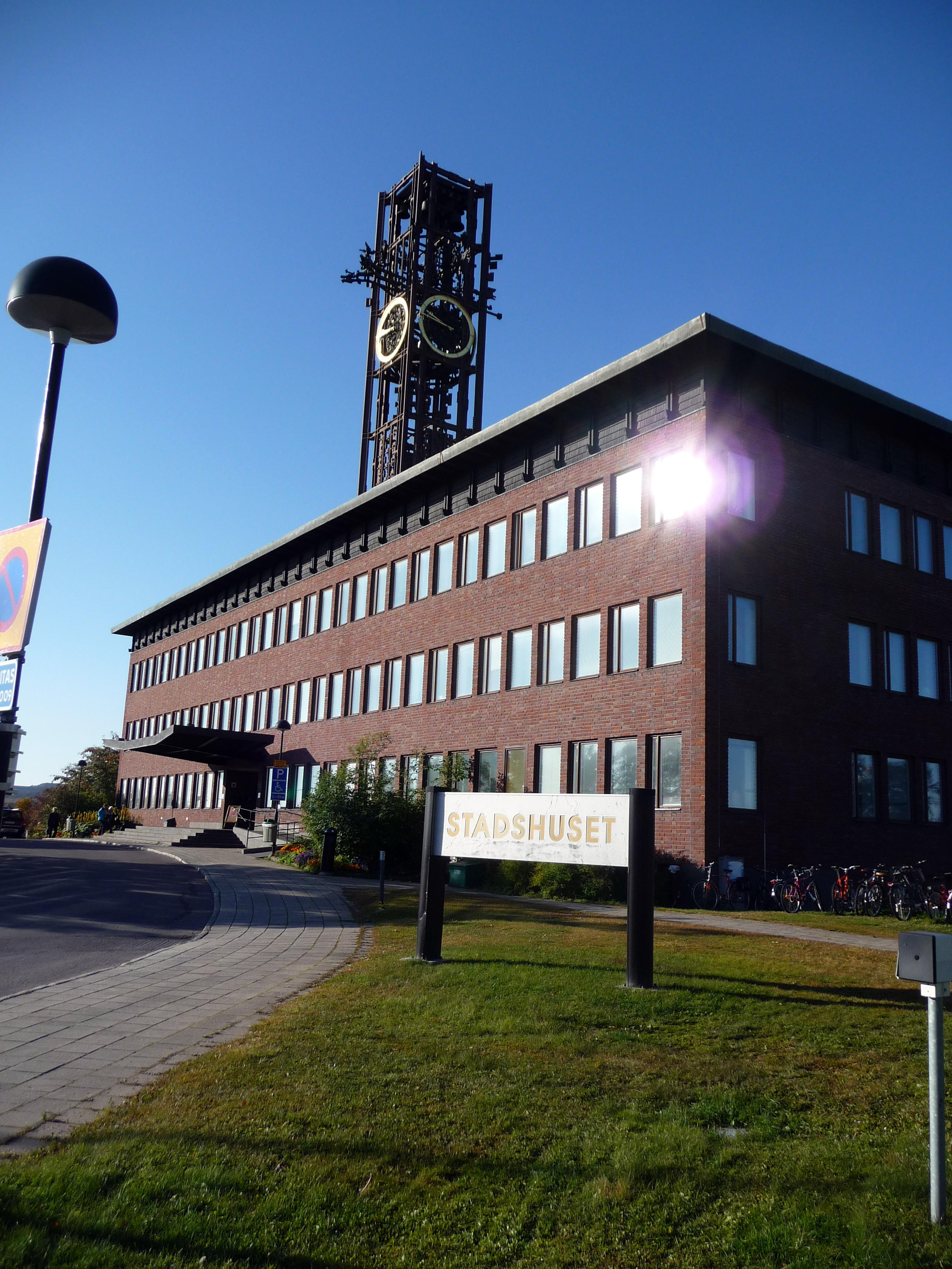 When they are moving the city of Kiruna, this building will be the only one to be moved completely: the Kiruna city hall, the most architecturally significant building in Kiruna, will be cut into four parts, each of which will be transported whole to the target site and reassembled there.